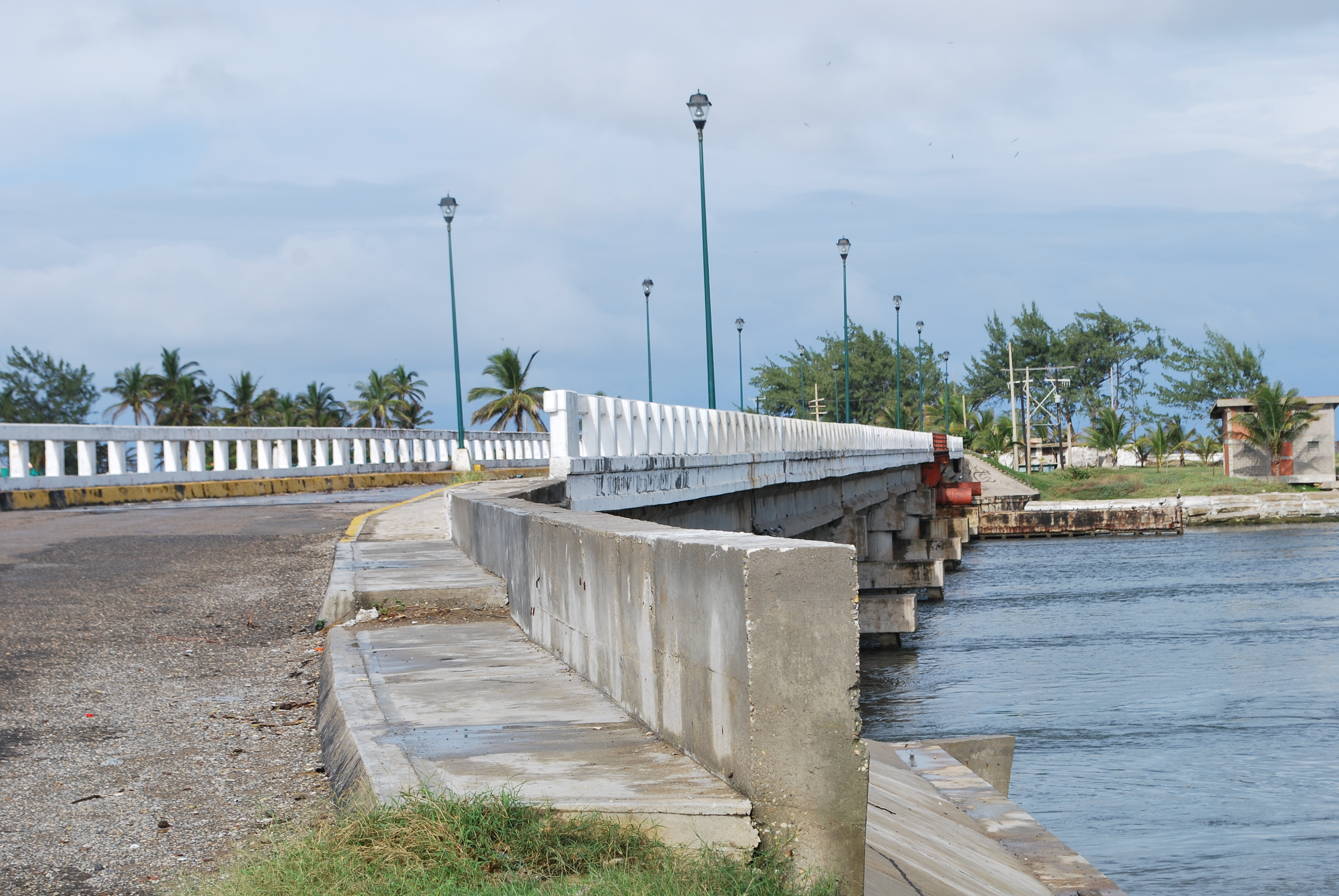 Bridge at Sanchez Magallanes, Tabasco, Mexico